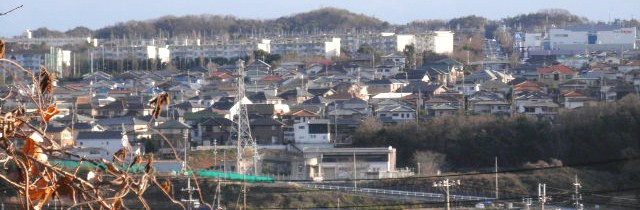 Sakuragaoka Nishi-ku Kobecity Hyogopref background